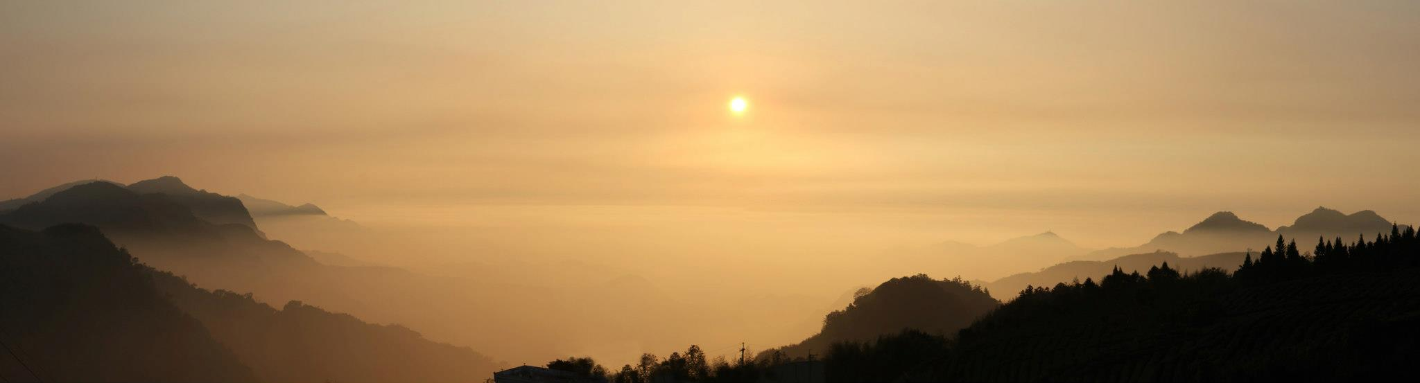 The sun dipping into the fog in Ye Lan Nature Reserve, Taiwan.